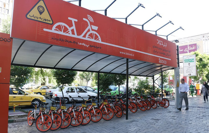 Bdood Station for bicycle in Tehran.